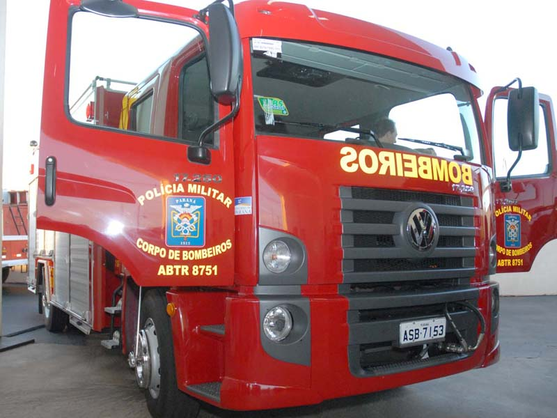 Volkswagen Constellation fire engine of the military police, at Paraná, Brazil. With "BOMBEIROS" in mirror writing ("SORIEBMOB").